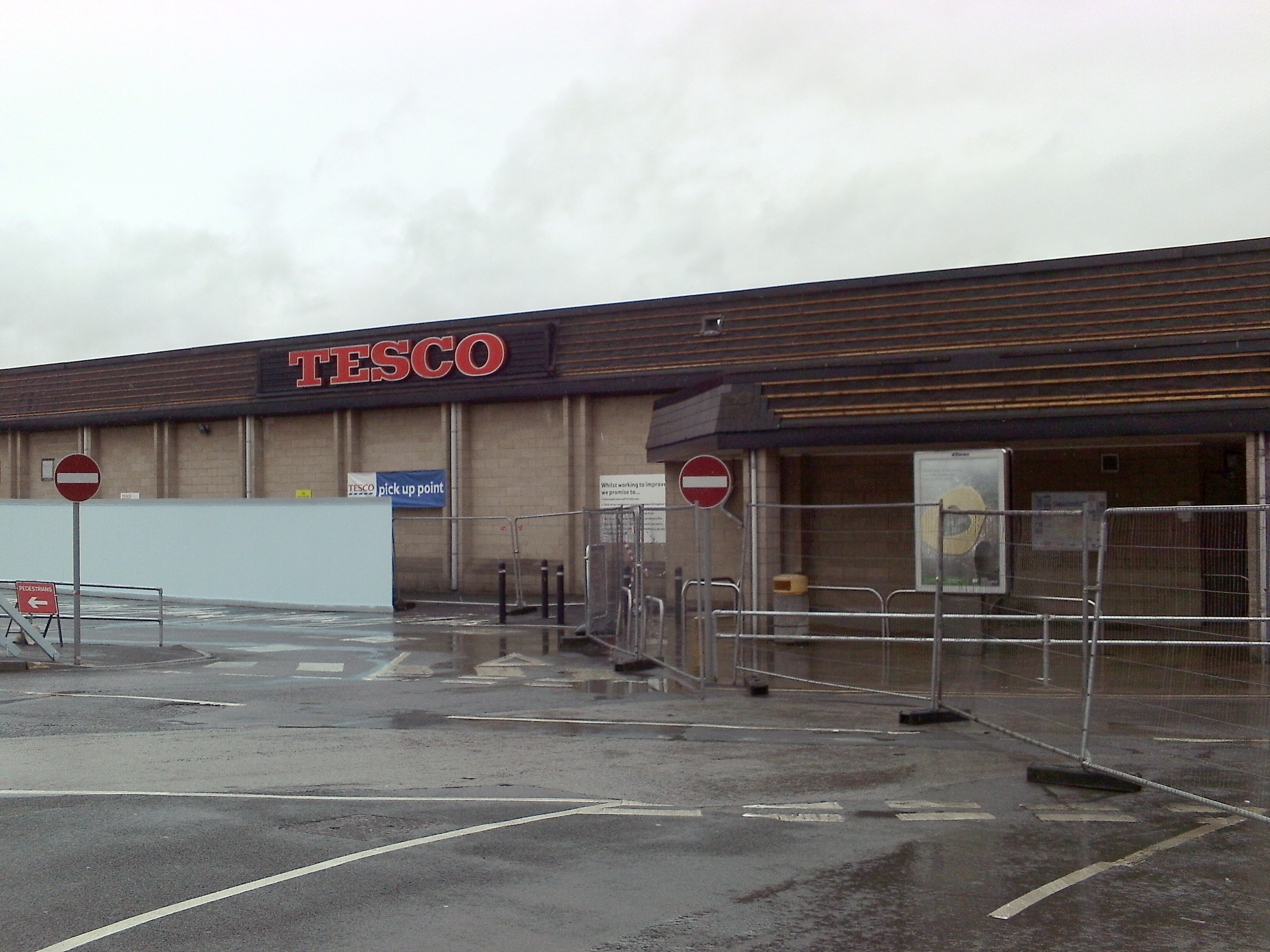 Tesco is Skipton, North Yorkshire undergoing redevelopment in March 2009